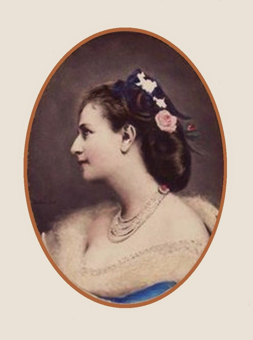 Marguerite Bellanger (10 June 1838 - 23 November 1886) was a French actress and courtesan, born Julie Lebœuf. Marguerite Bellanger is the mistress of the Emperor Napoleon III.